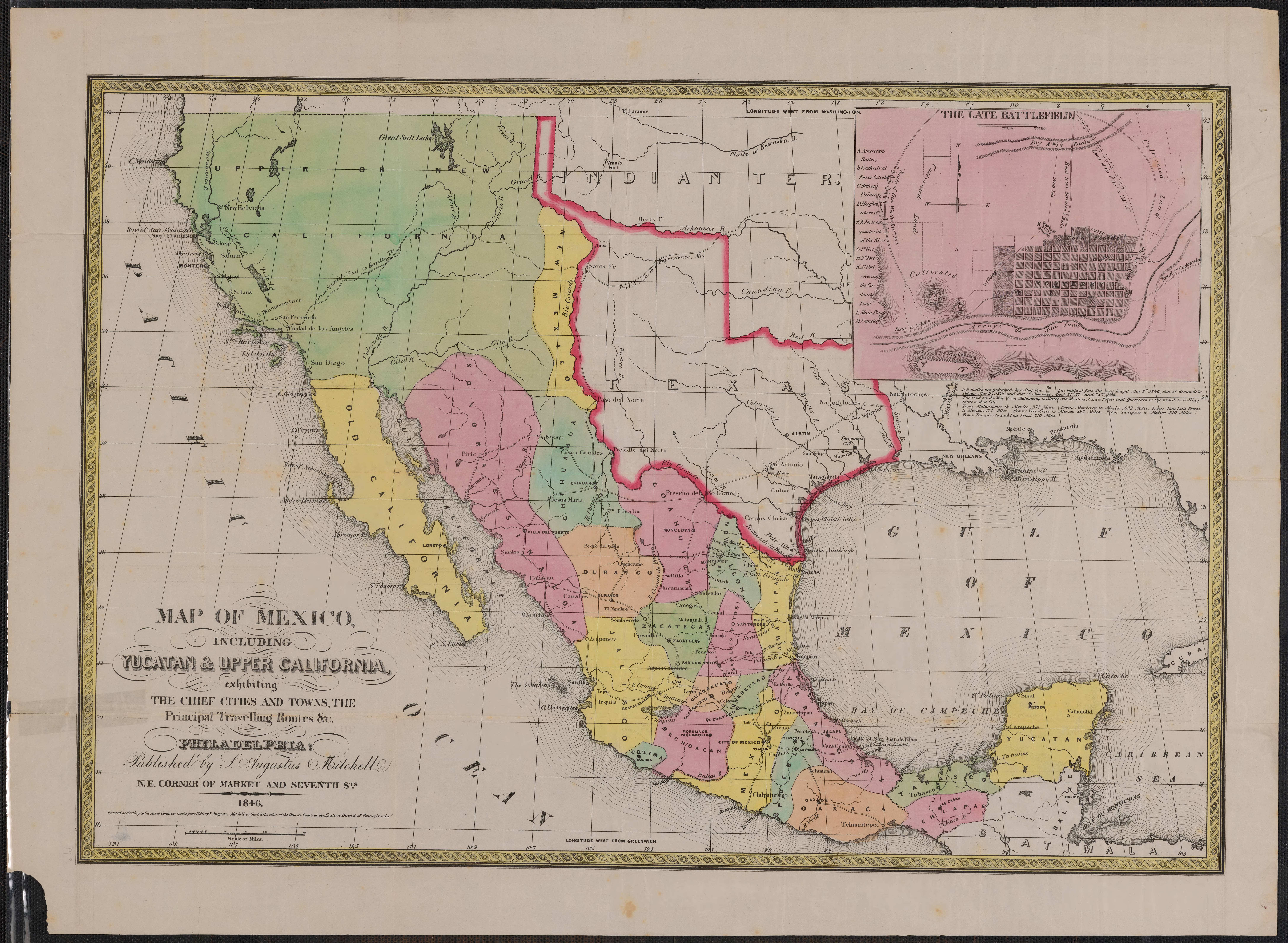 Map of Mexico, including Yucatan and Upper (Alta) California.